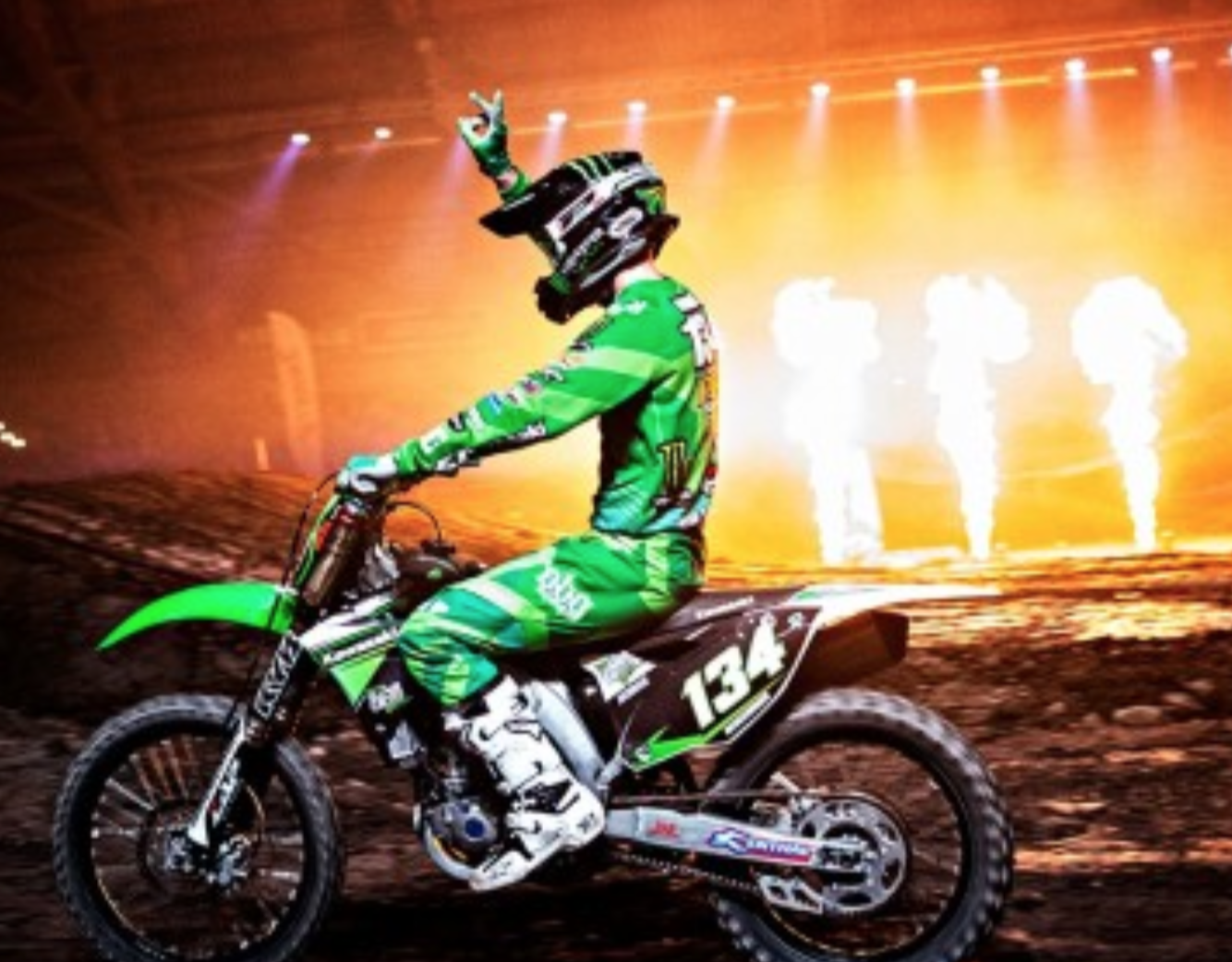 Upeat avajaiset ja show